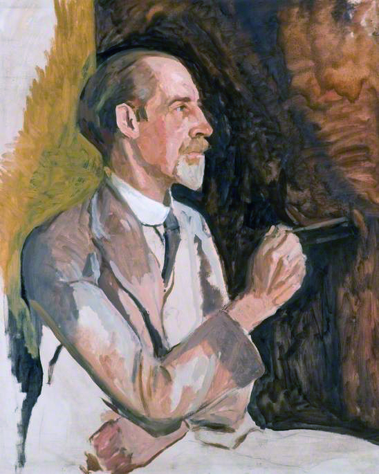 Self portrait oil on canvas, 76 x 64 cm